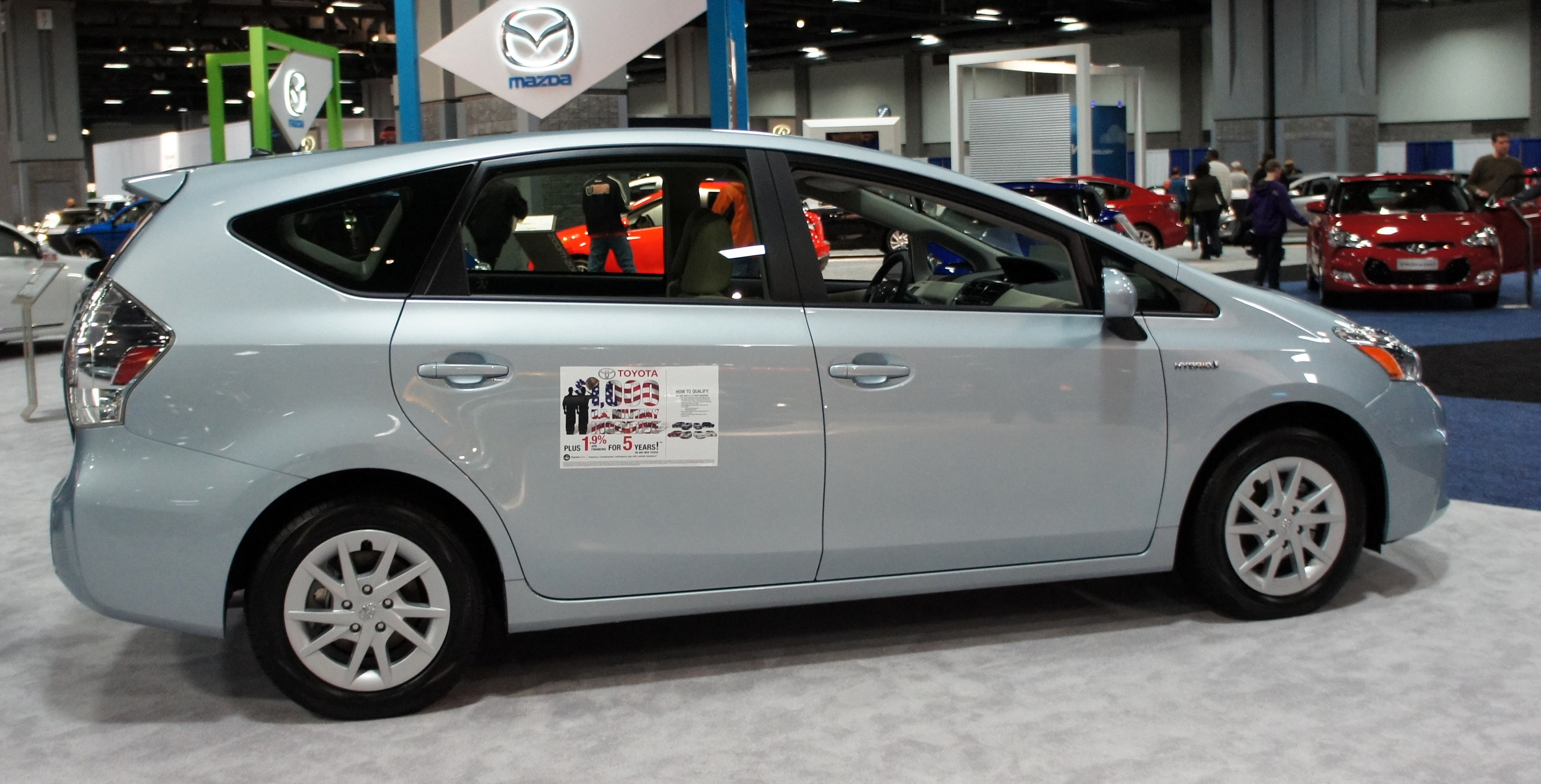 2012 Toyota Prius v at the 2012 Washington Auto Show (D.C.)